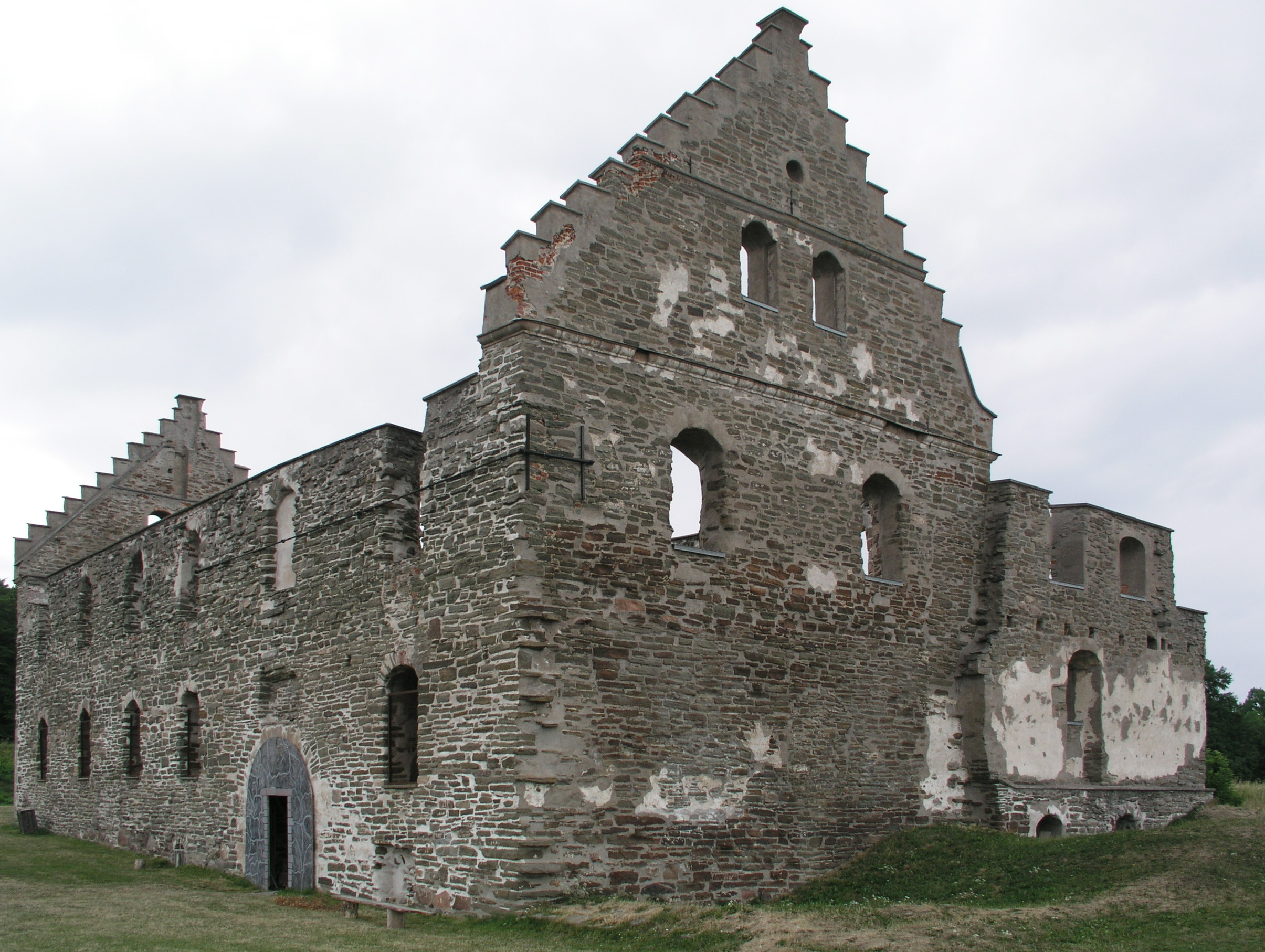 Visingsborg, old castle on the isle of Visingsö, Sweden. South-east side.